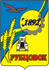 Rubtsovsk (Altai krai), coat of arms